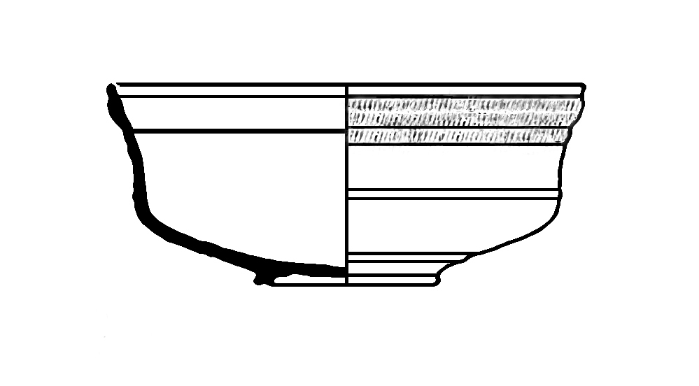 Simplified profile drawing of Gaulish samian decorated form Dragendorff 29. 1st century AD.